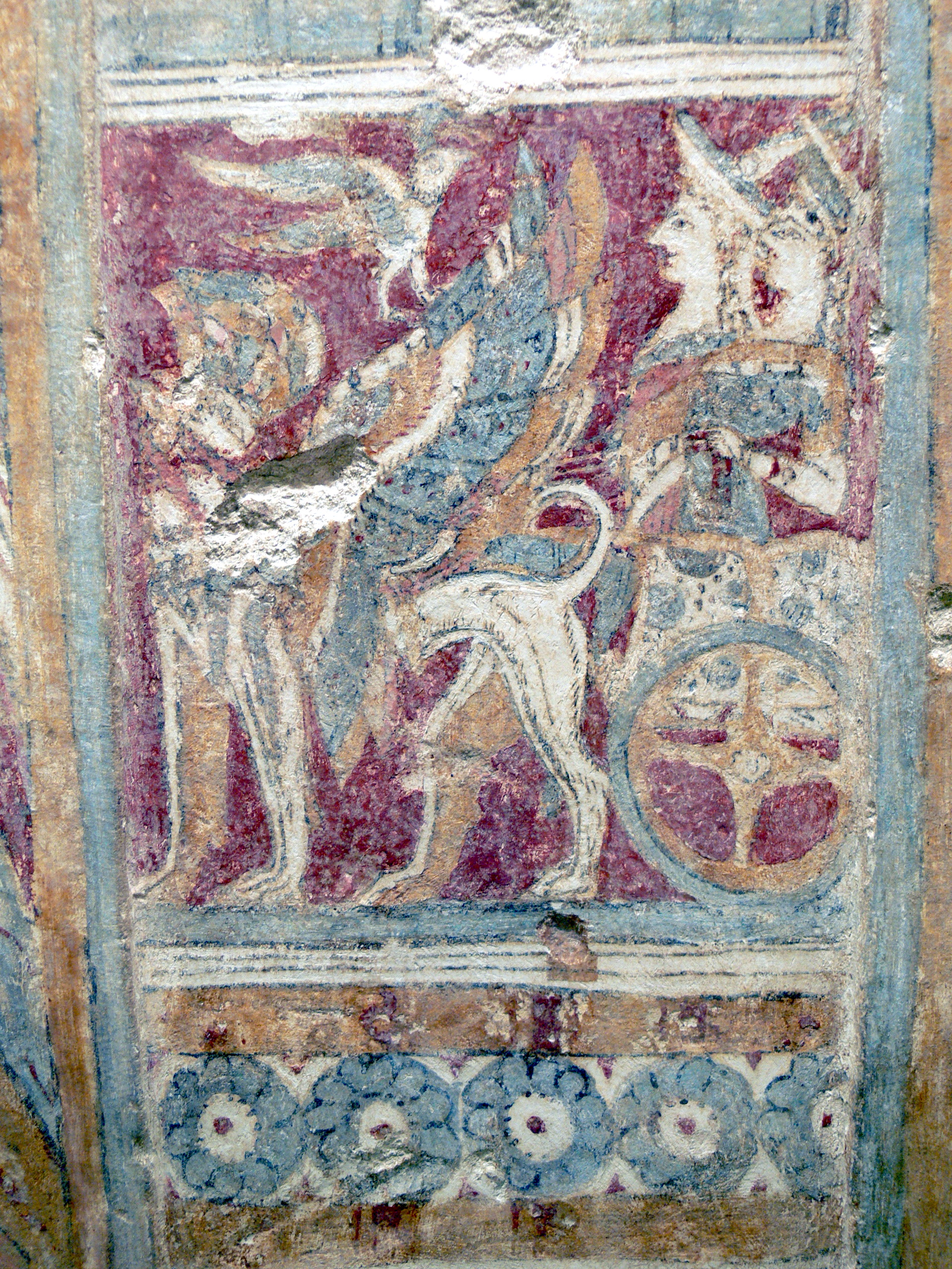 Archaeological Museum of Herakleion. Sarcophagus of Agia Triada ( 1600 - 1450 B.C.) - detail: Women driving a chariot.